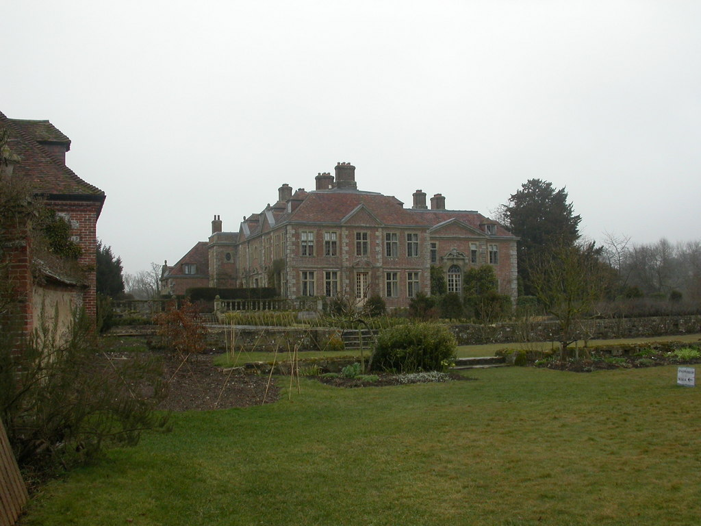 Middle Woodford, Heale House C16 house overlooking River Avon; later enlarged, partially burnt down & rebuilt.